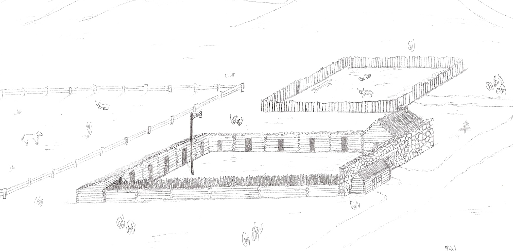 My interpretation of Fort Alma, which was located in Monroe, Utah during the 1860s.